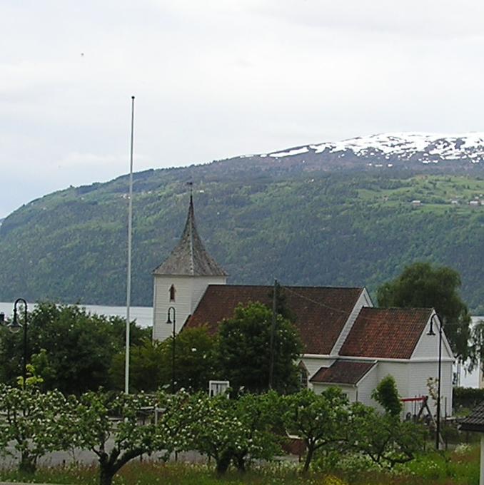 Utvik church nynorsk: Utvik kyrkje cropped version of file:Utvik.jpg